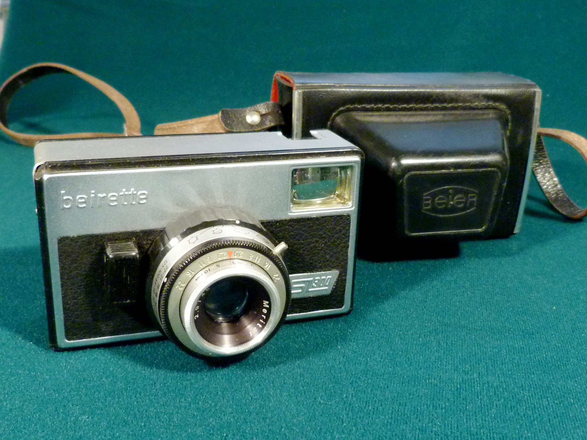 Simple photocamera type «beirette 300 SL» of VEB Kamerawerk Freital, G.D.R., using 35 mm negative film with special SL cassette for 12 photographs, built about 1972